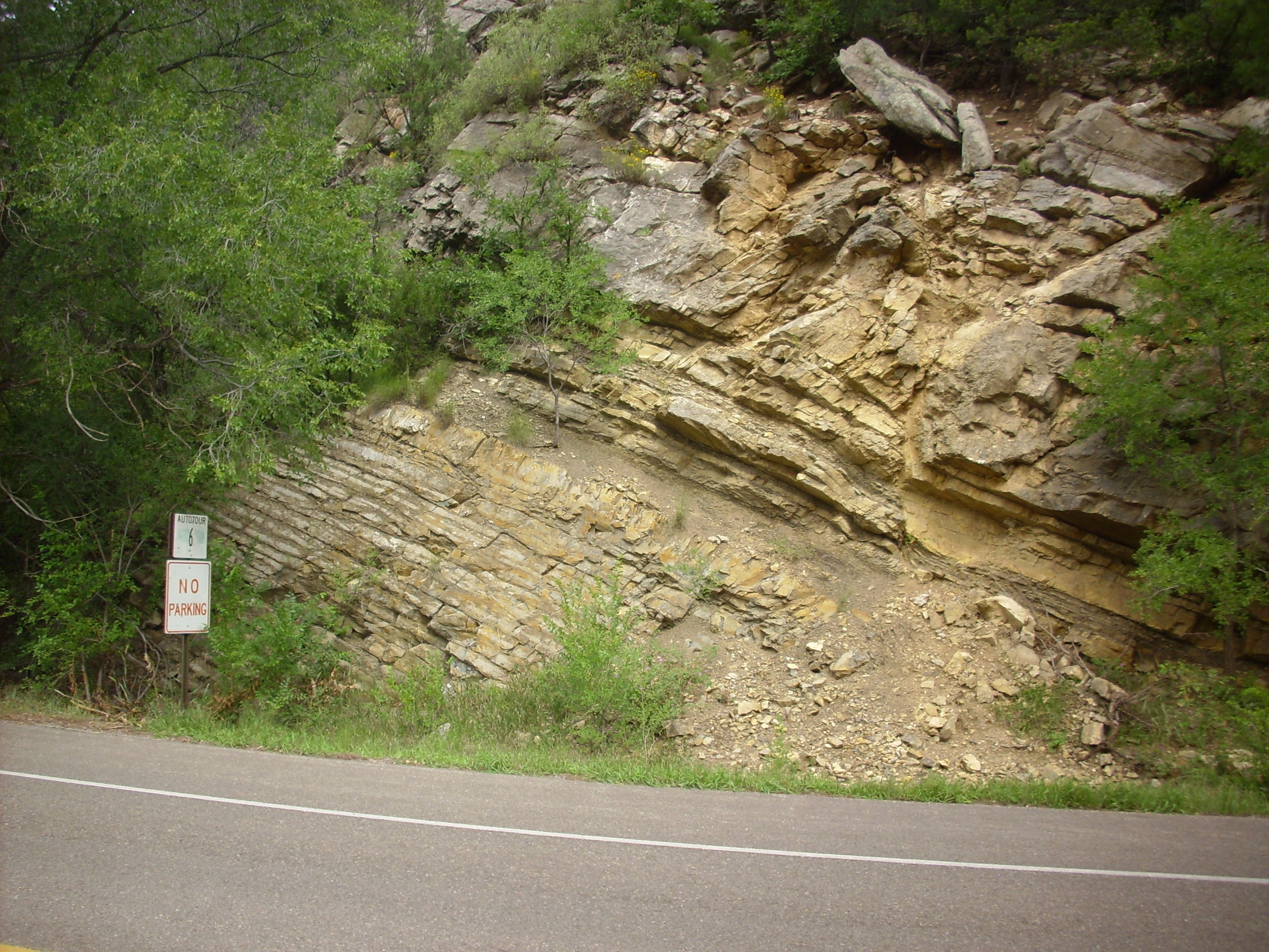 This photograph shows beds of the Sandia Formation, a Pennsylvanian formation in New Mexico, United States.